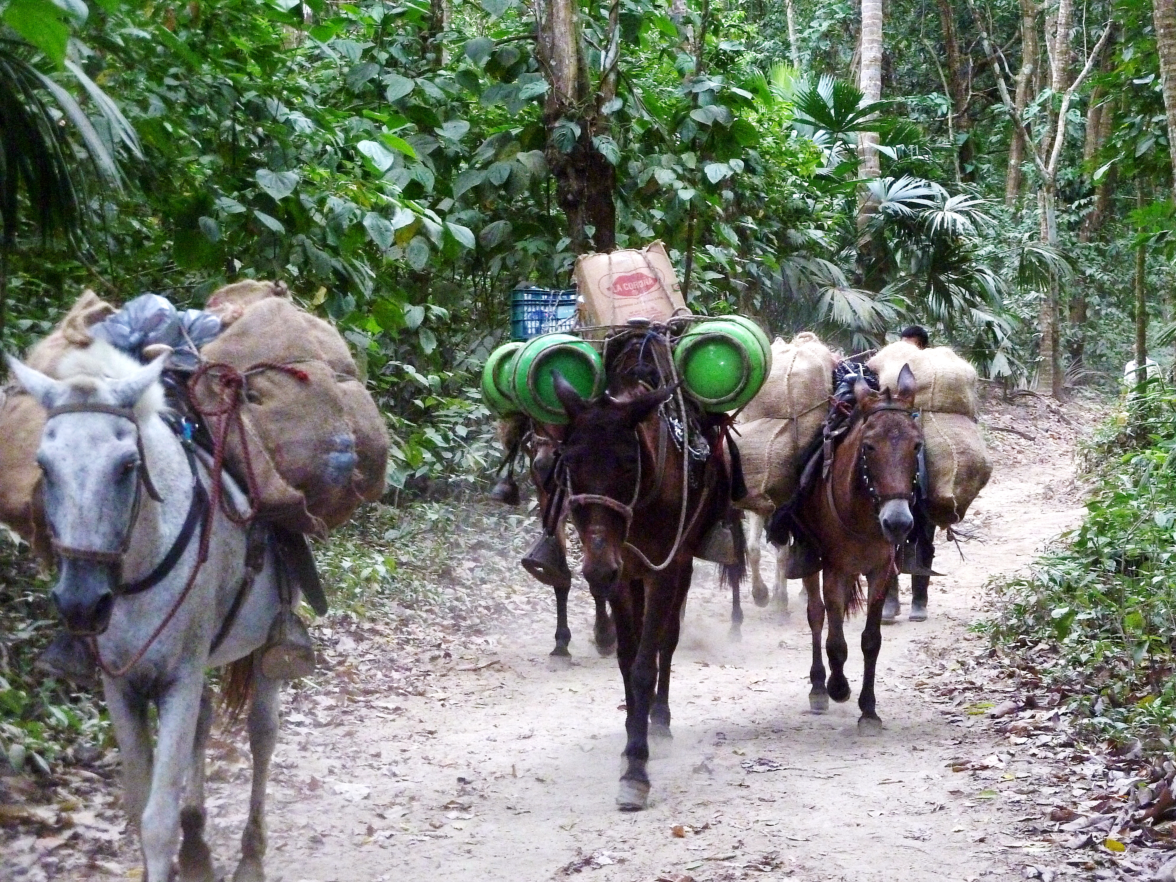 Donkeys in Tayrona National Park in northern Colombia delivering supplies to one of the outposts in the jungle.